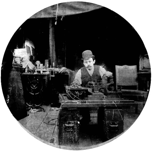 Charles Kayser of the Thomas Edison laboratory with an early version of the Kinetograph, the camera developed to shoot films for the Kinetoscope movie exhibtion system, ca. 1891–94